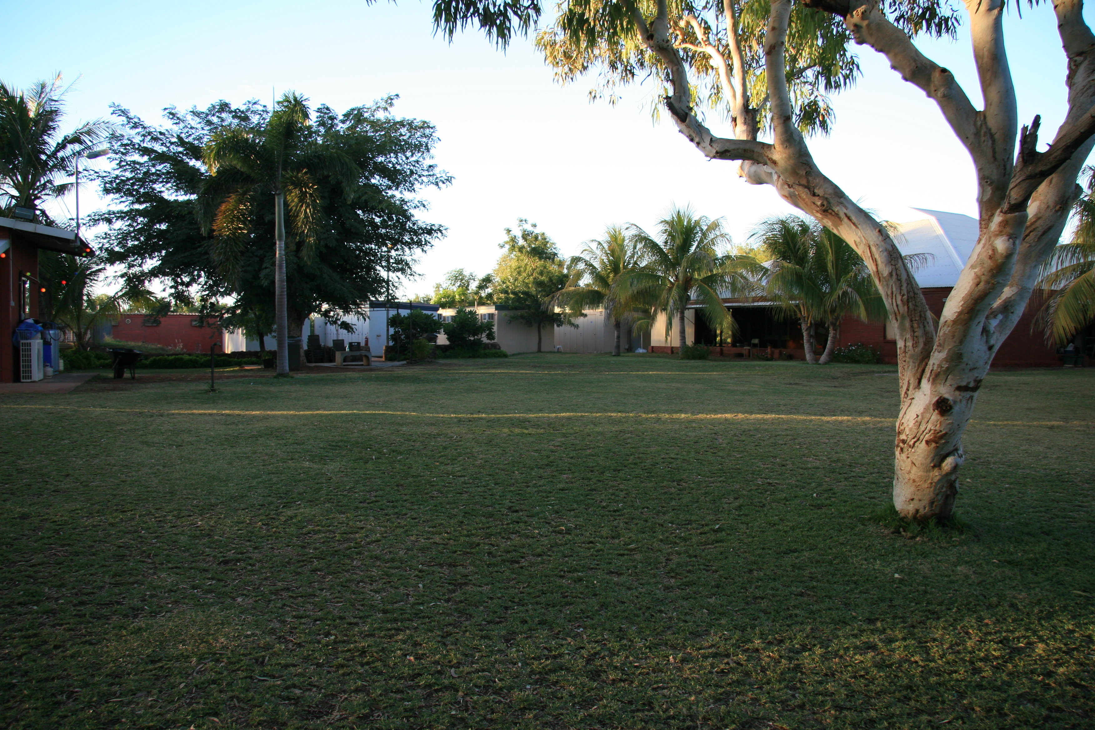 General view of Pardoo homestead taken in 2008